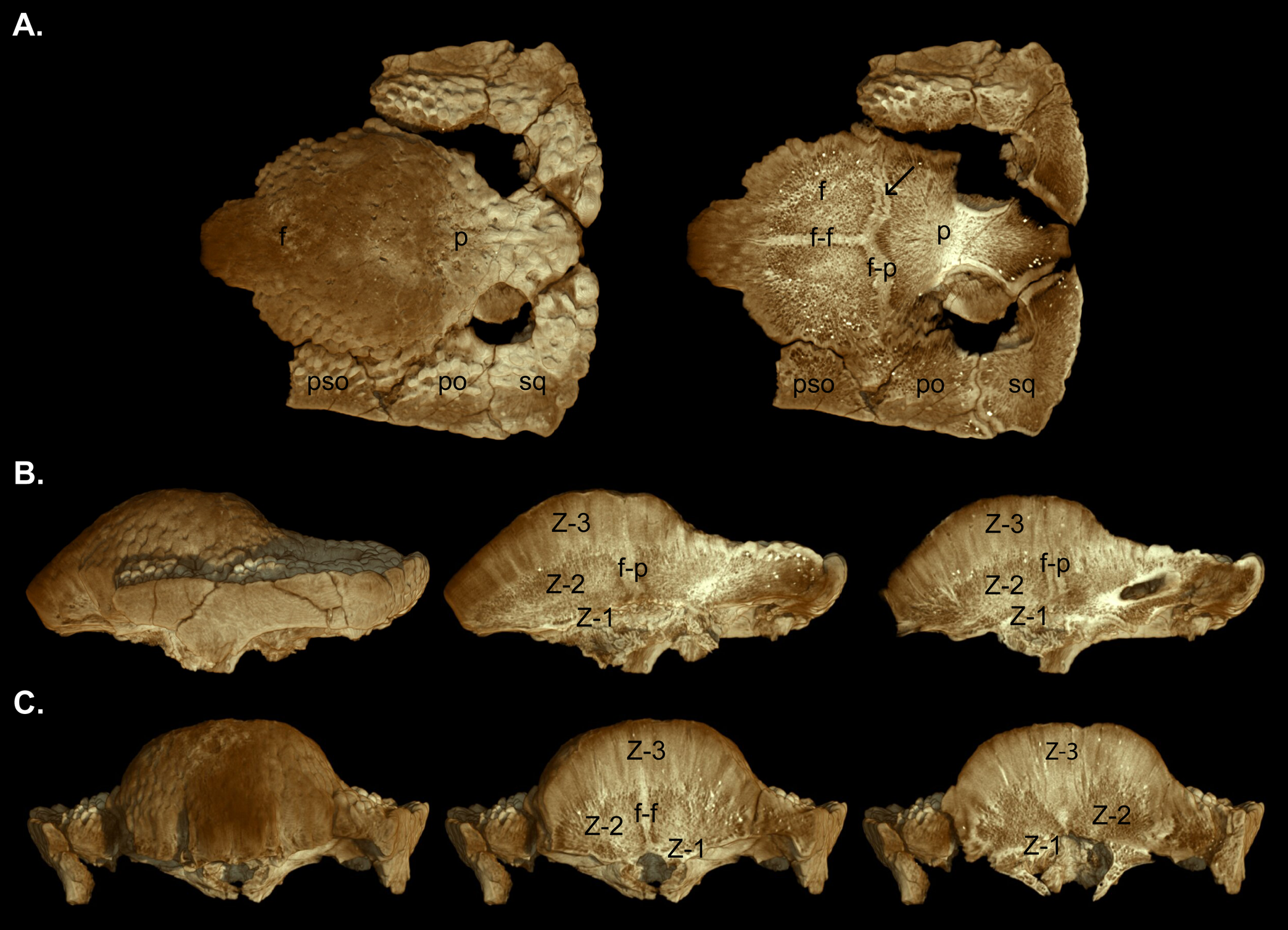 High-resolution CT images of TMP 84.5.1. A, dorsal view (left) and frontal section (right); B, lateral view (left), median sagittal section (middle), and lateral sagittal section (right); C, anterior view (left), anterior transverse section through the frontal (middle), and posterior transverse section through the parietal (right). The histological zones of Goodwin and Horner [37] are denoted. The arrow identifies an artifact likely produced by mineralized collagen fibres present across and along the interfrontal and frontoparietal sutures. Abbreviations: f, frontal; f-f, inter-frontal suture; f-p, frontoparietal suture; p, parietal; po, postorbital; pso, posterior supraorbital; sq, squamosal; Z-1 to Z-3, histological Zones I to III.